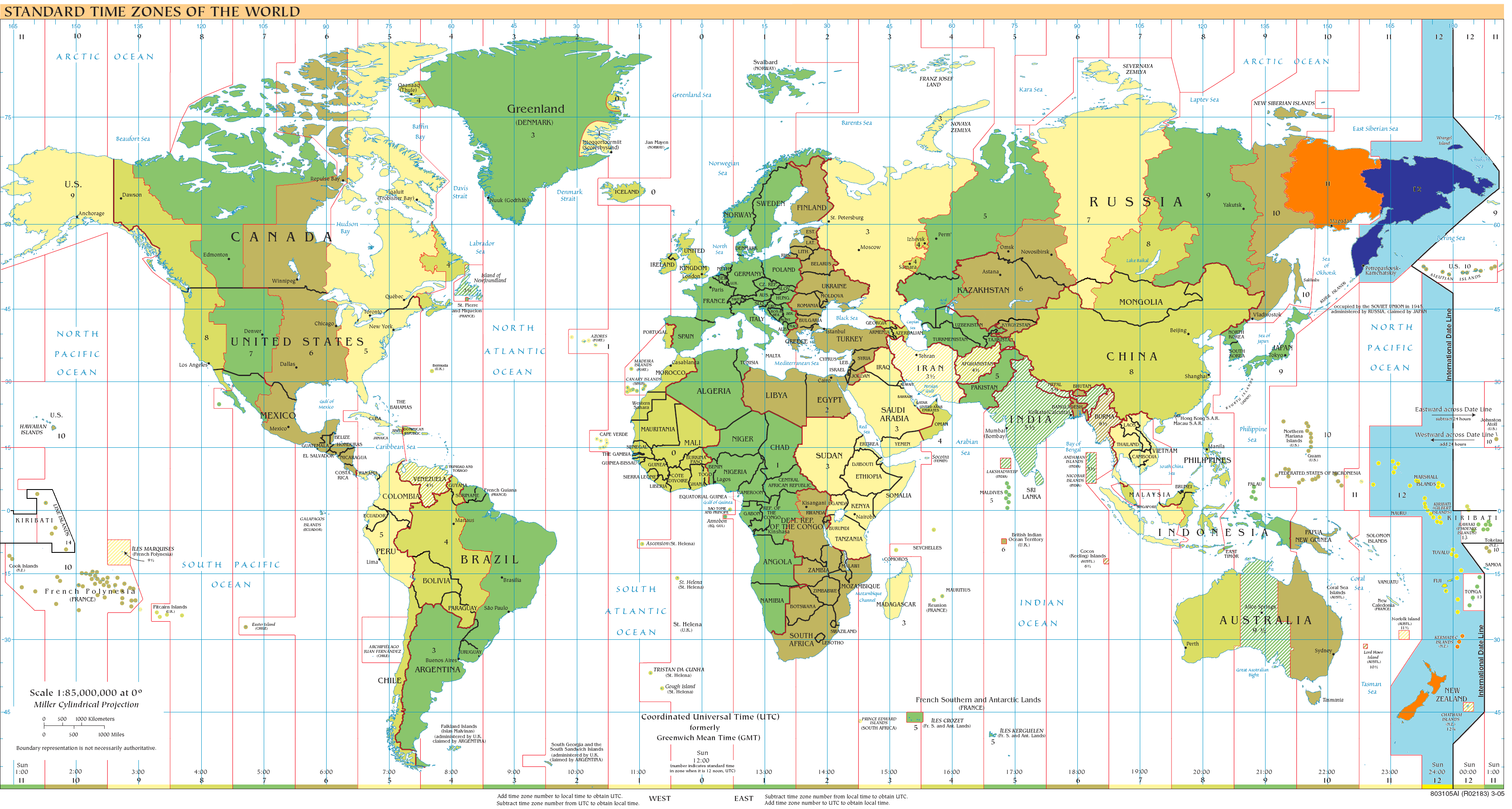 Copy of Timezones2008.png Edited to show UTC+12 Light Blue - UTC+12 sea areas Dark Blue - UTC+12 Northern Winter / Southern Summer (e.g. Decemeber) Orange - UTC+12 Souther Winter / Northern Summer (e.g. June) Yellow - UTC+12 All year round